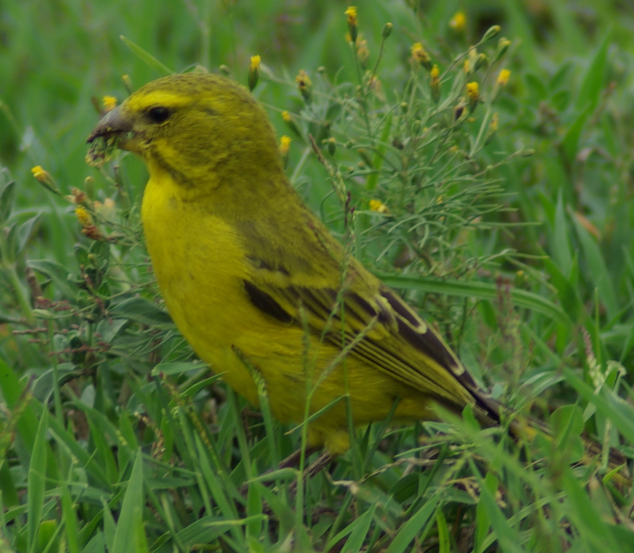 Adult male Brimstone Canary Serinus sulphuratus sharpii, in or near Sweetwaters Game Reserve, Kenya. The time stamp is 10 hours too early.